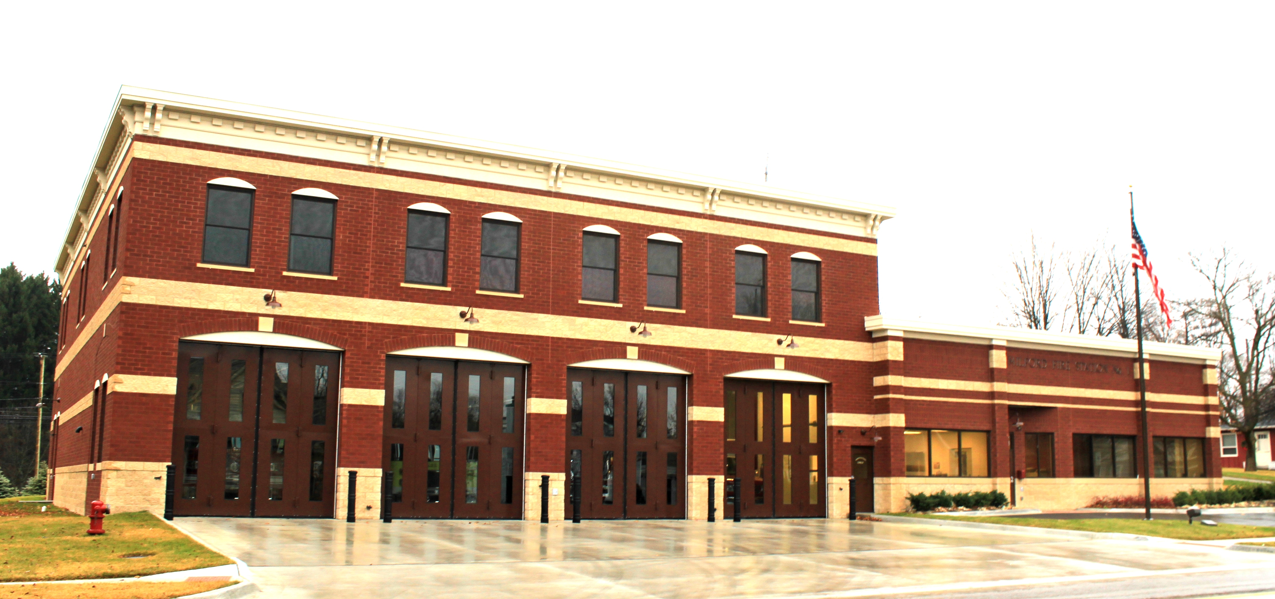 Milford Township Fire Station No. 1, 325 West Huron Street, Milford, Michigan